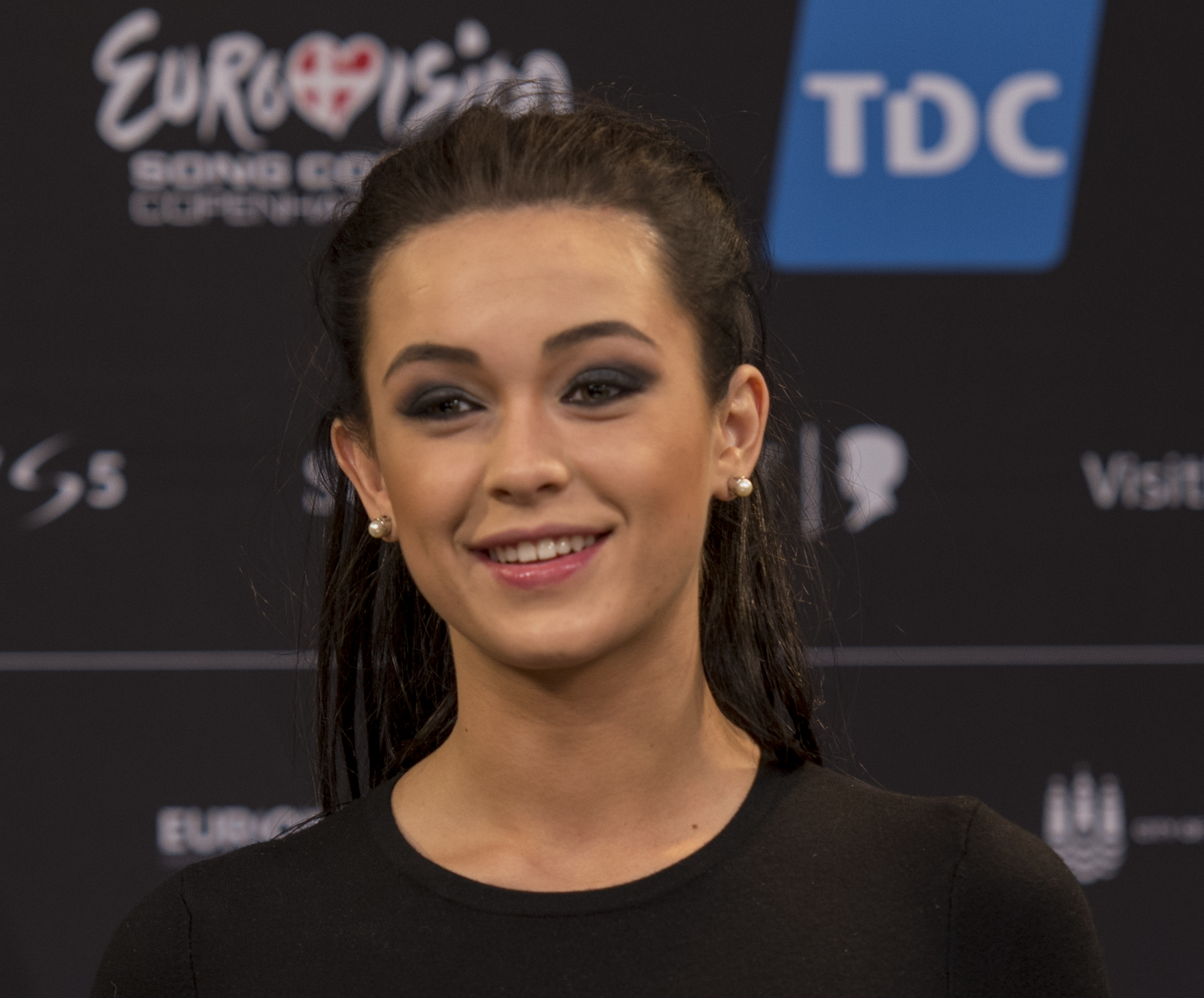 Mariya Yaremchuk at a Meet & Greet during the Eurovision Song Contest 2014 Copenhagen. (Help translate this text)